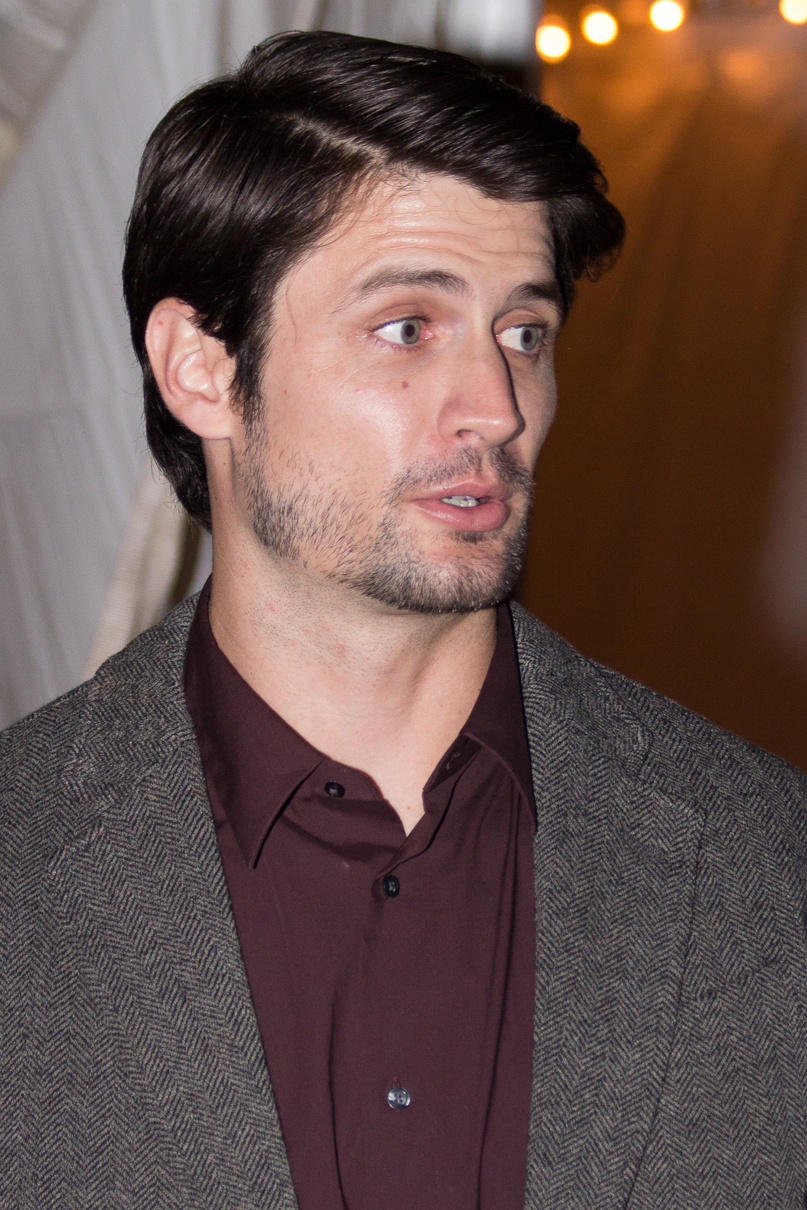 James at the 2013 Toronto International Film Festival.